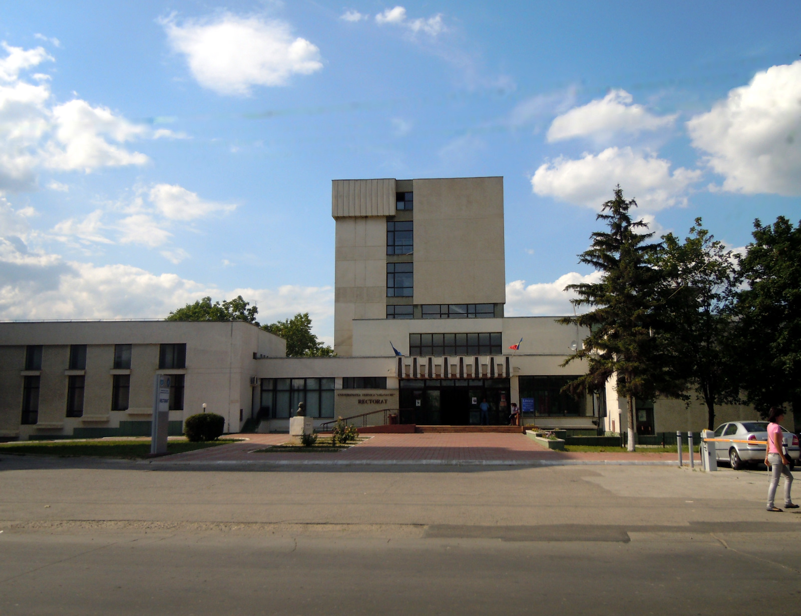 Iaşi , Rector of the Technical University Gheorghe Asachi , Iaşi , Romania